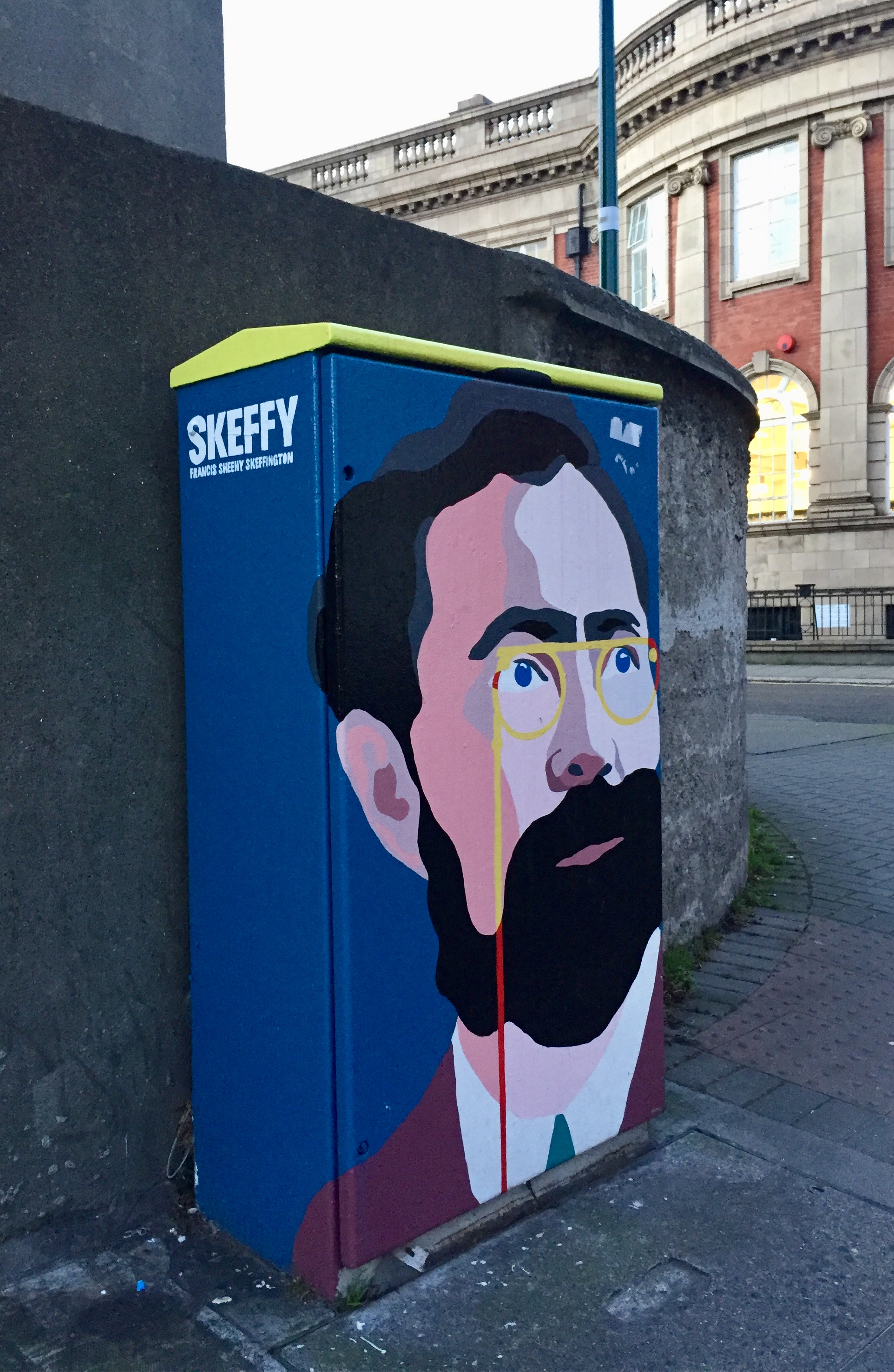 Portrait of Francis Sheehy Skeffington, public art, corner Rathmines road and Leinster road, Dublin, Ireland